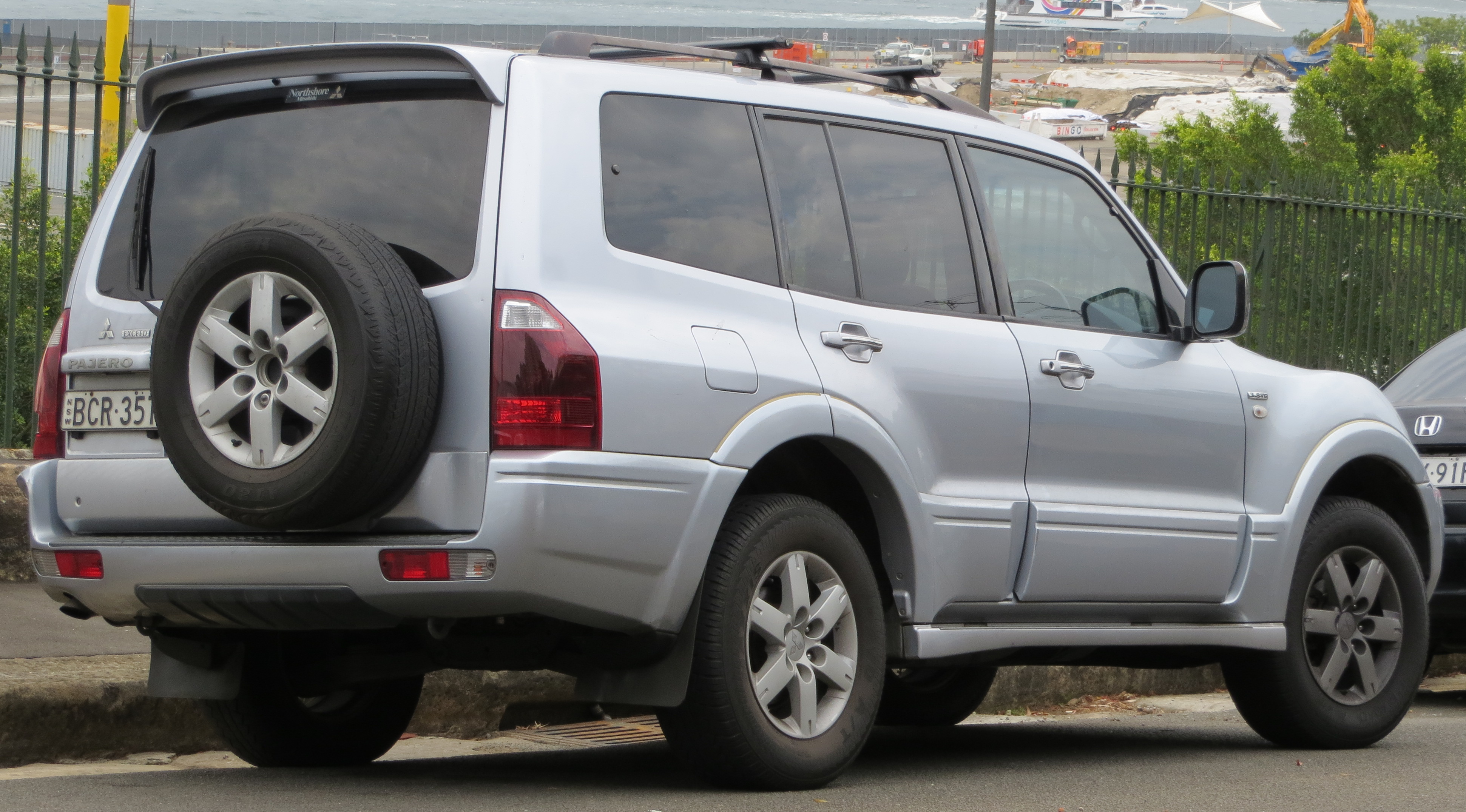 2004 Mitsubishi Pajero (NP) Exceed wagon. Photographed in Millers Point, New South Wales, Australia.